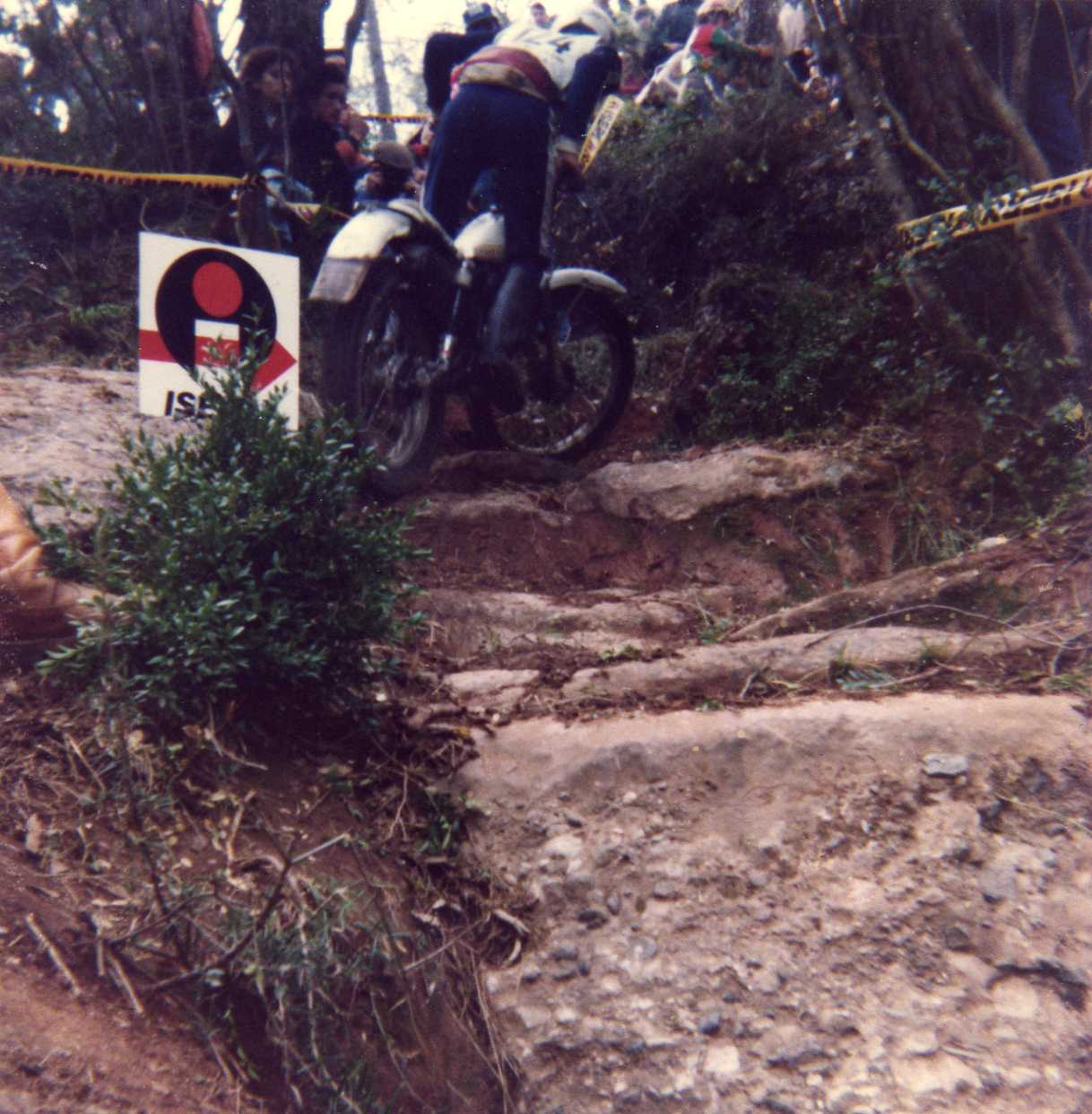 Eddy Lejeune with his Honda TL 200 at XIII "Trial de Sant Llorenç" in Matadepera (Catalonia) on March 11, 1979. It was the 5th race of the Trial World Championship. He ran out of competition because he was only 17 years old.This was the section #18, called "Camp de tiro", near the football field of Rellinars.